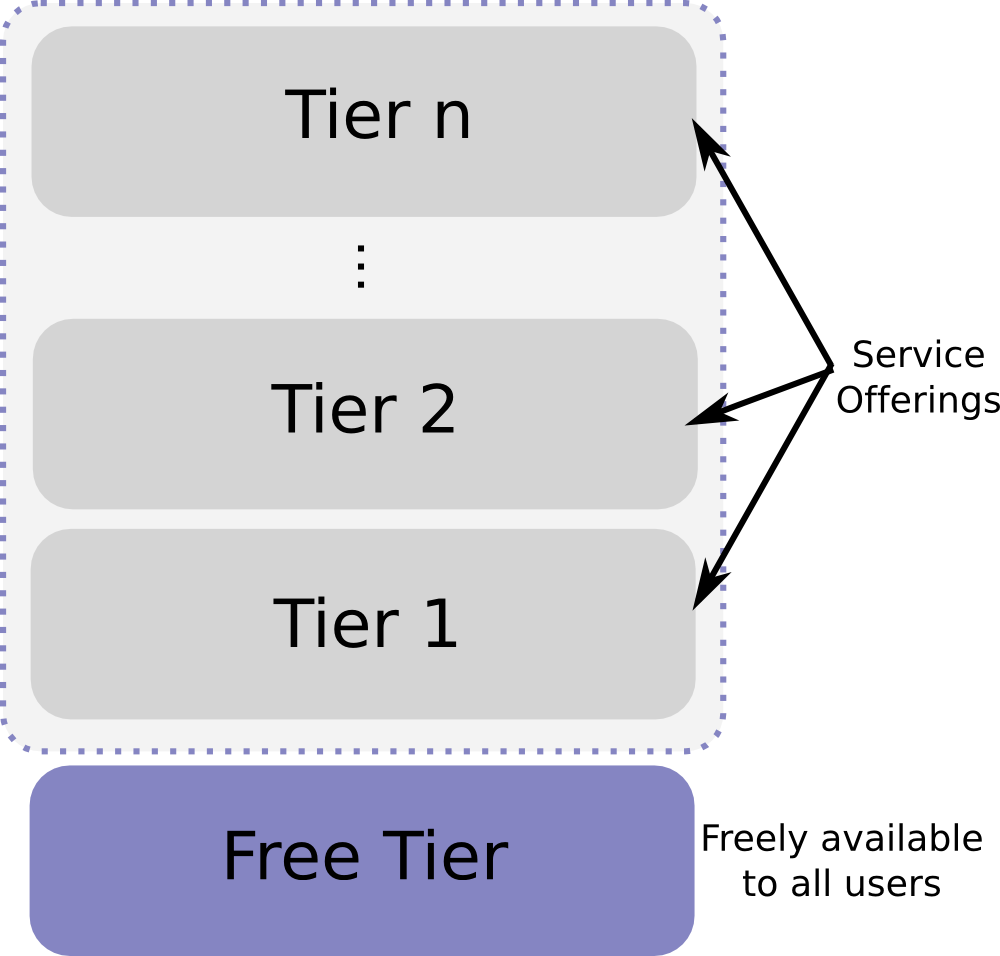 This picture shows the tiers in fremium business pattern.png